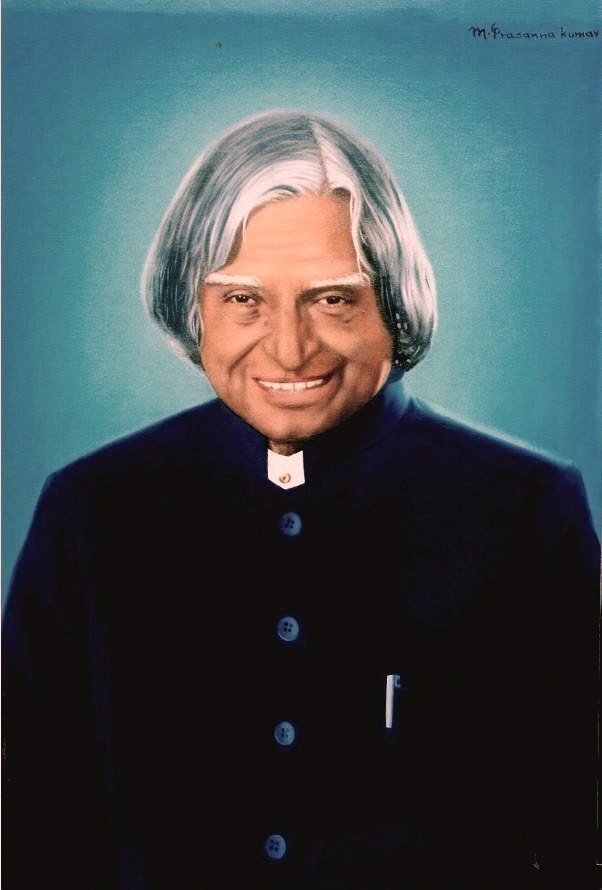 Oil on canvas; 30" X 24" When this completed portrait was shown, H. E. Commented: "You have done a wonderful job". Now the portrait is adorning the wall of Raj Bhavan. Send your comments to: mpkumarartist